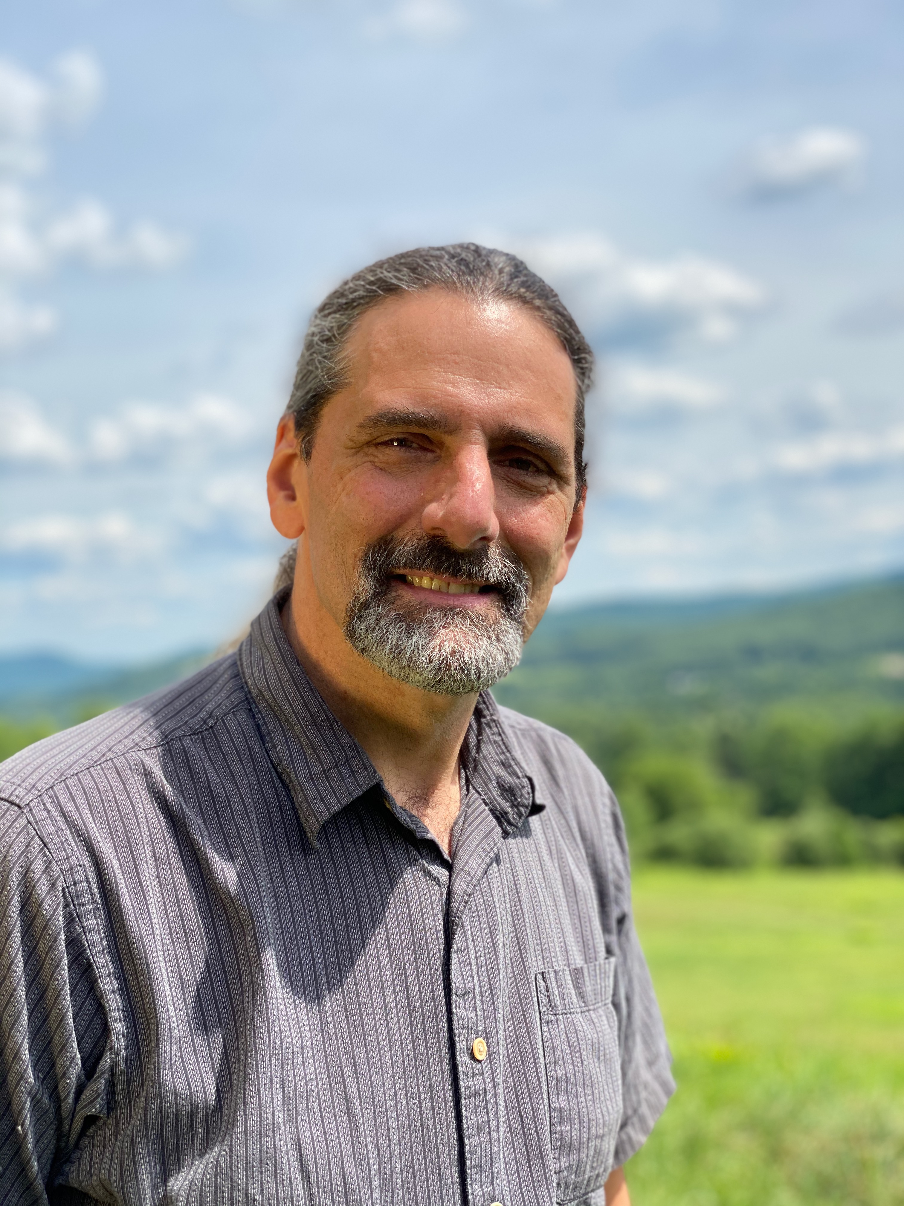 This is a headshot of Kirk C. White